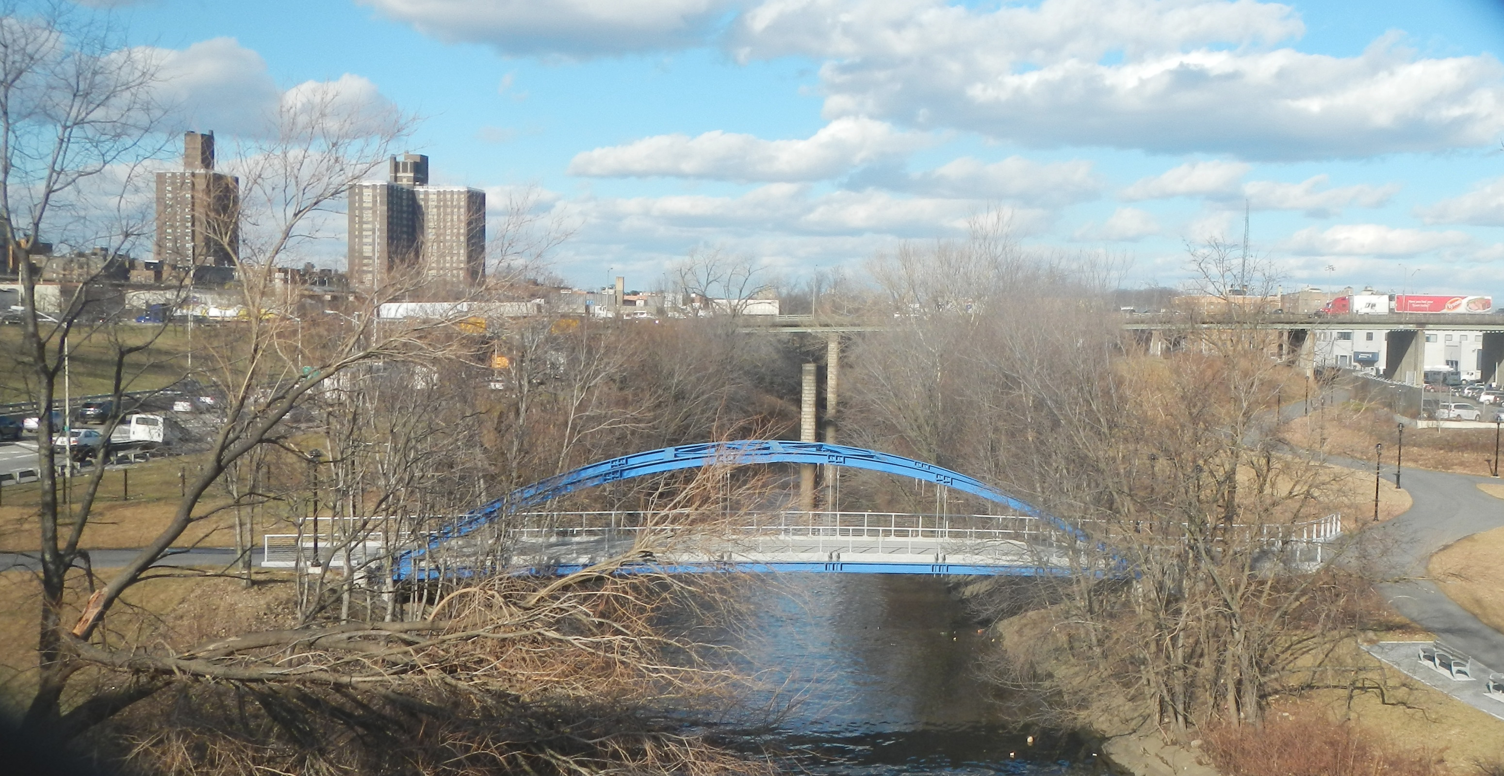 Looking north from 174th Street bridge on a sunny early afternoon.